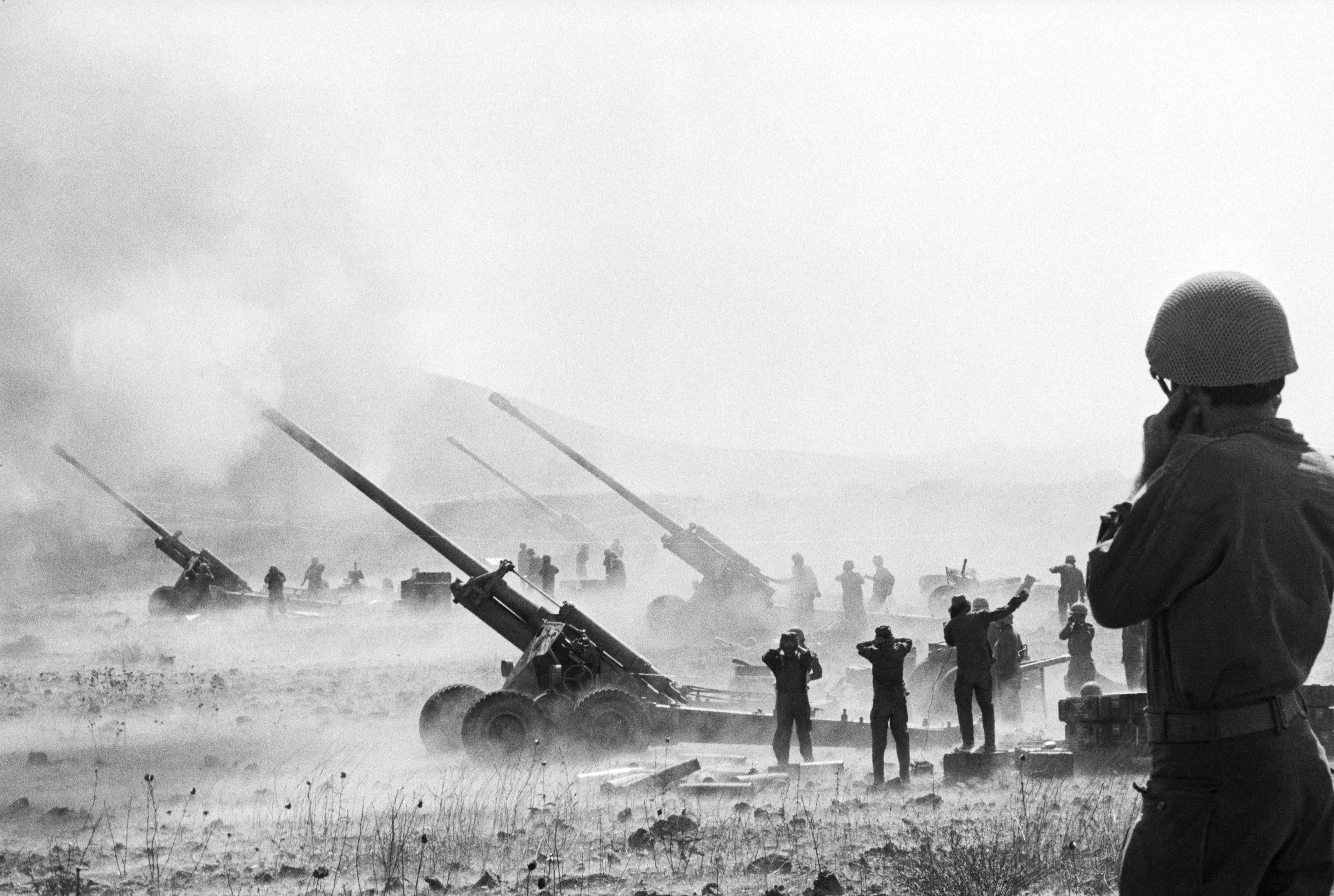 Israeli artillery fires on Syrian positions during the Arab-Israeli War on Oct. 12, 1973 - © Bettman/CORBIS. From the booklet "President Nixon and the Role of Intelligence in the 1973 Arab-Israeli War." For more information, visit